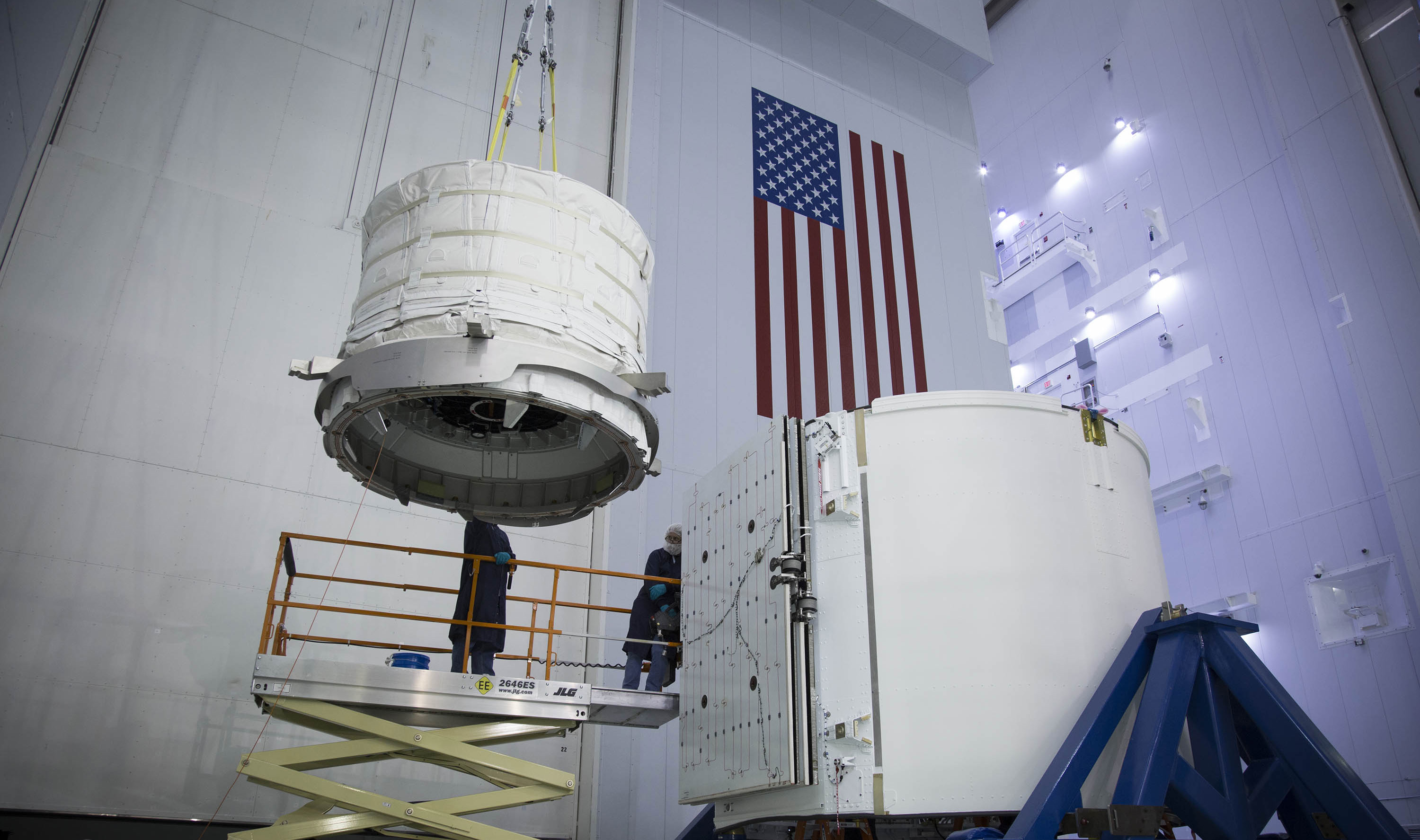 Expandable habitat from Bigelow Aerospace being lifted into Dragon's trunk for a ride to the space station